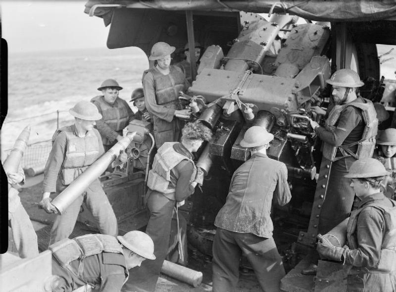 Men loading the 4 inch high-angle gun during gunnery practice on board HMS Zulu.